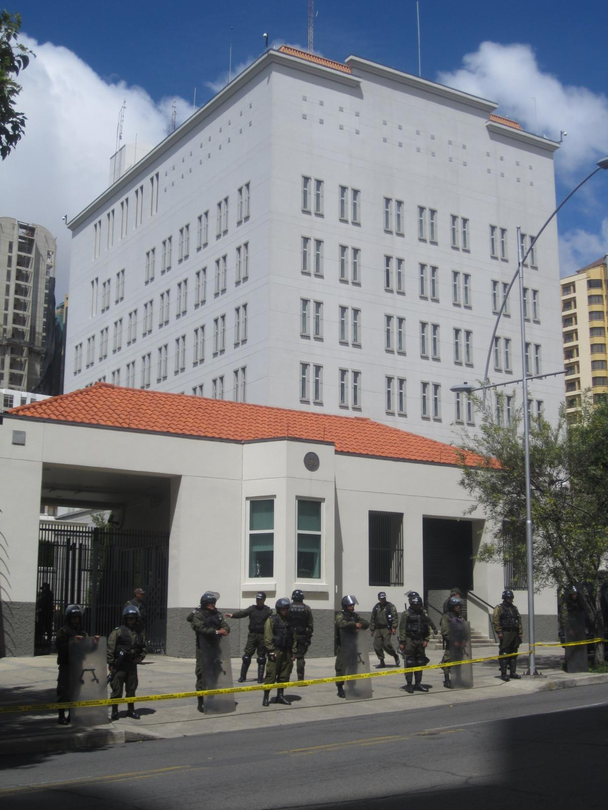 US Embassy in La Paz